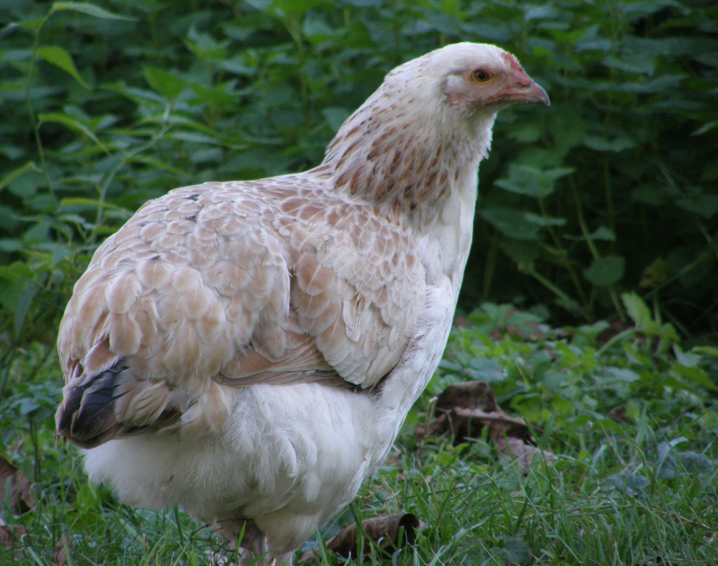 The "Meusienne" is a breed of chicken.